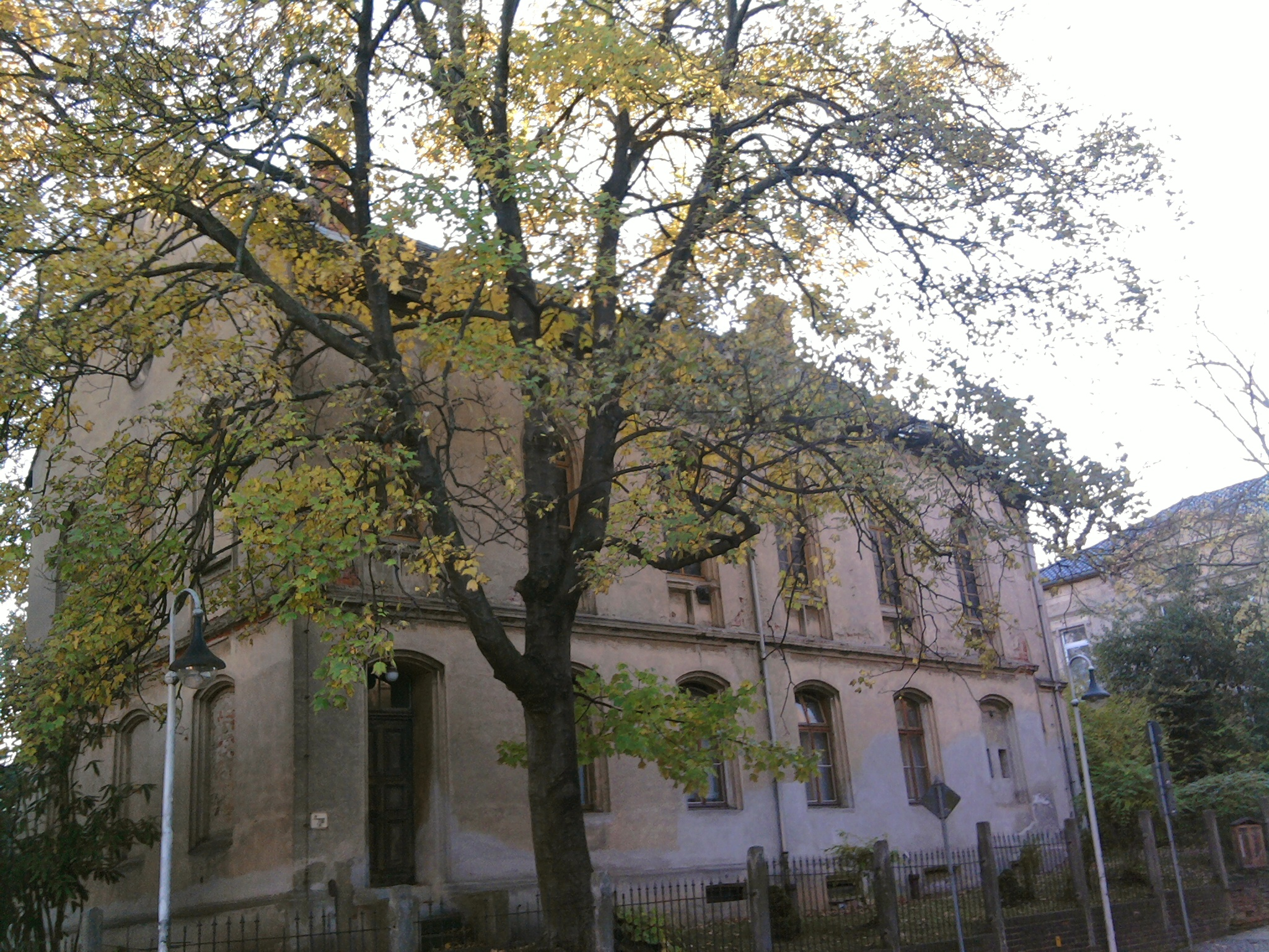 The original catholic church in Altenburg/Thuringia (Germany)